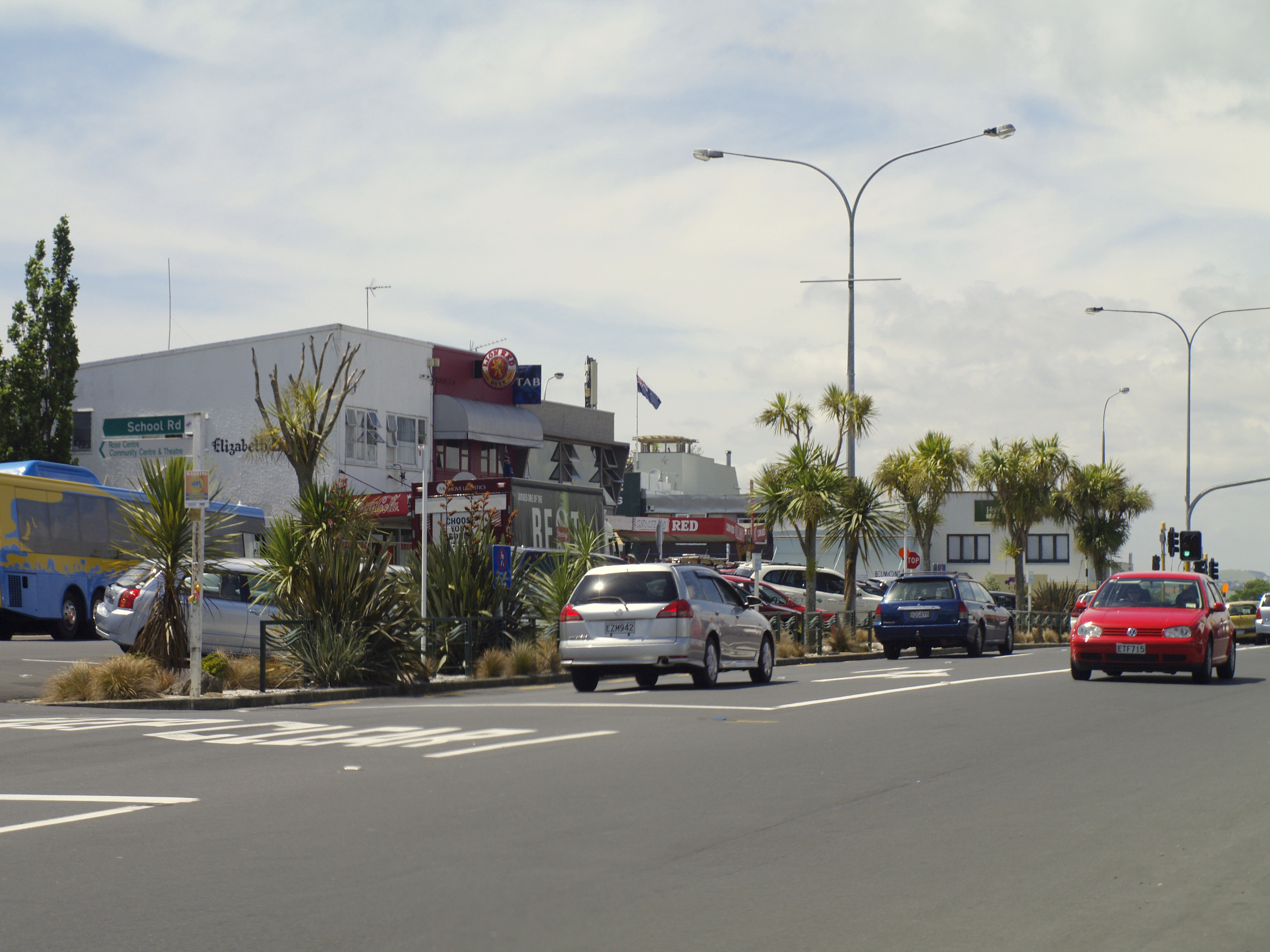 Shops on Lake Road in Belmont, Auckland.